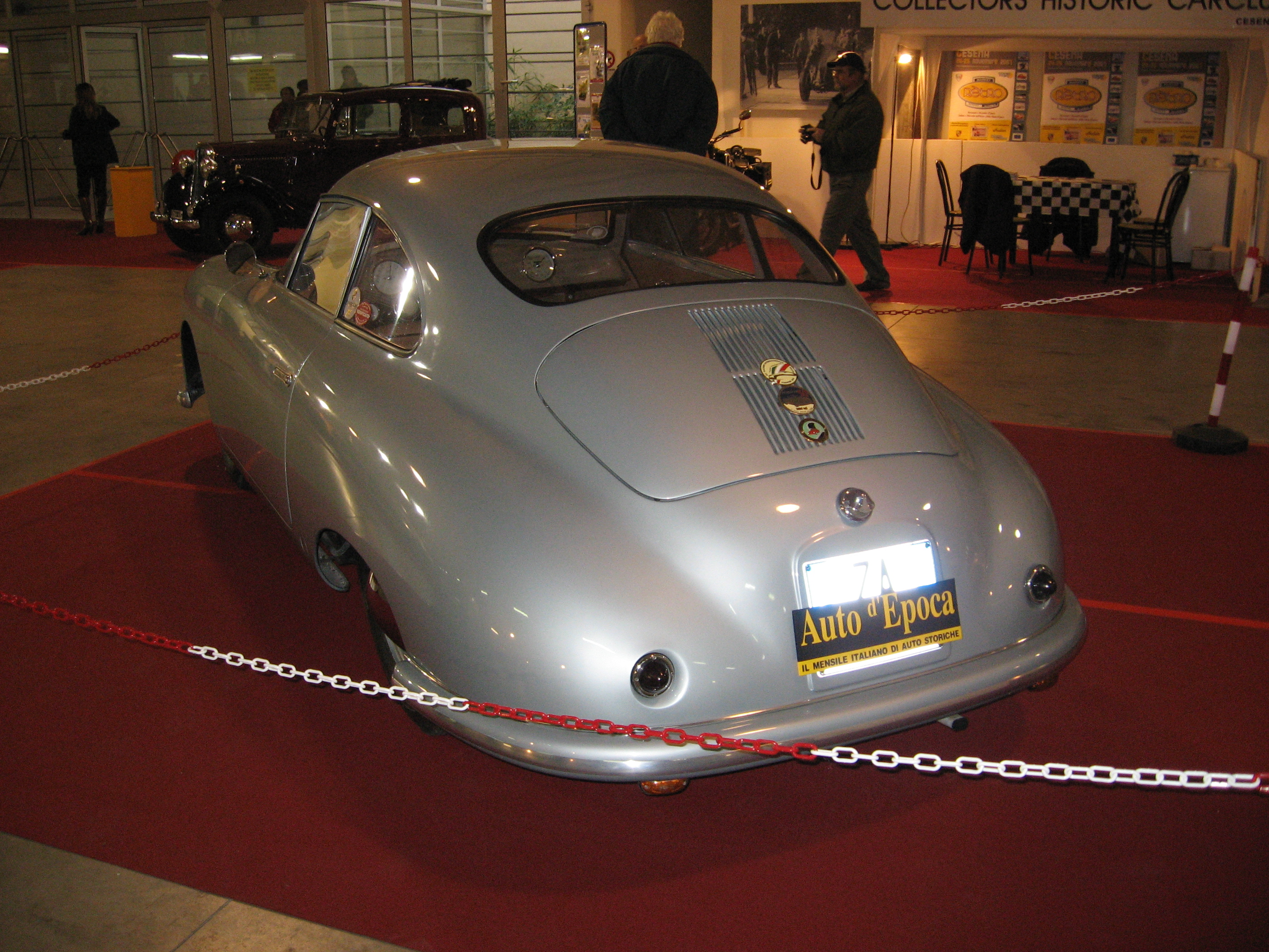 Subject:Porsche 356 Pre-A Coupé (1948) Author:Luc106 Date:November 24th, 2007 Event: Marke-Retrò 2007 Place/Country: Cesena (FC), Italy I release all rights in the public domain.